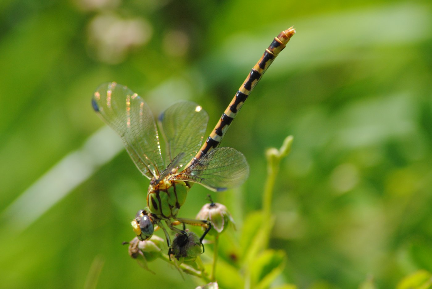 A female Eastern Ringtail (Erpetogomphus designatus) at Cabin John RP. Montgomery County, Maryland.